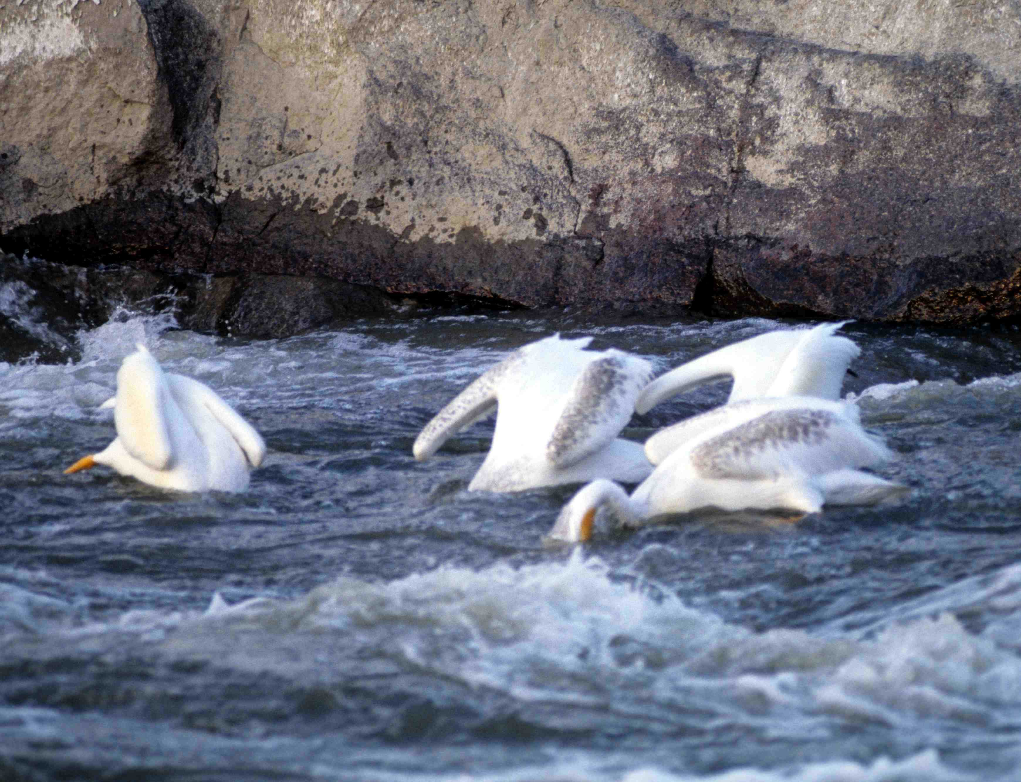 American White Pelicans (Pelecanus erythrorhynchos, Nashornpelikan) from Rapids of the Drowned (Slave River near Fort Smith, NT, Canada)